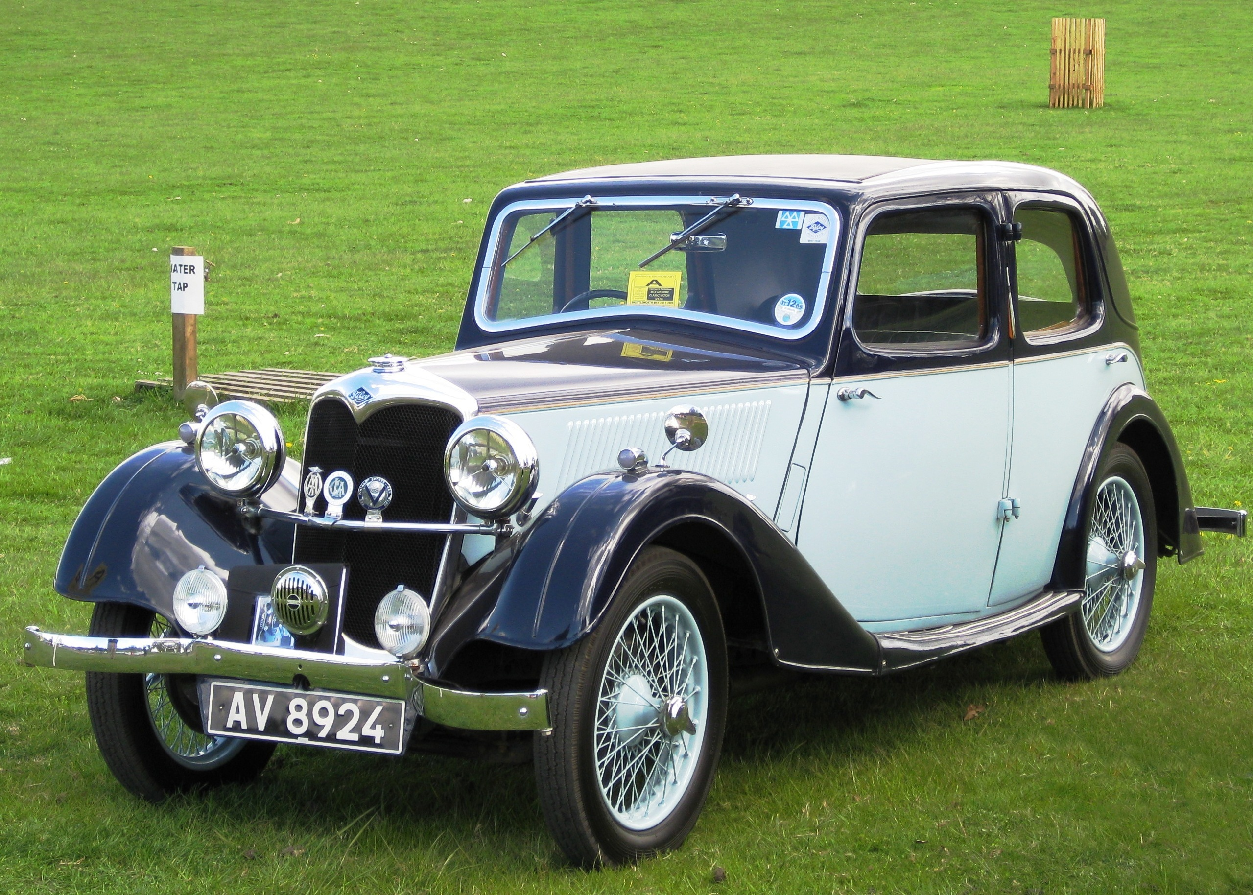 Small "Kestrel" bodied Riley saloon (1937) near Biggleswade(DVLA) first registered 6 June 1937, 1056cc